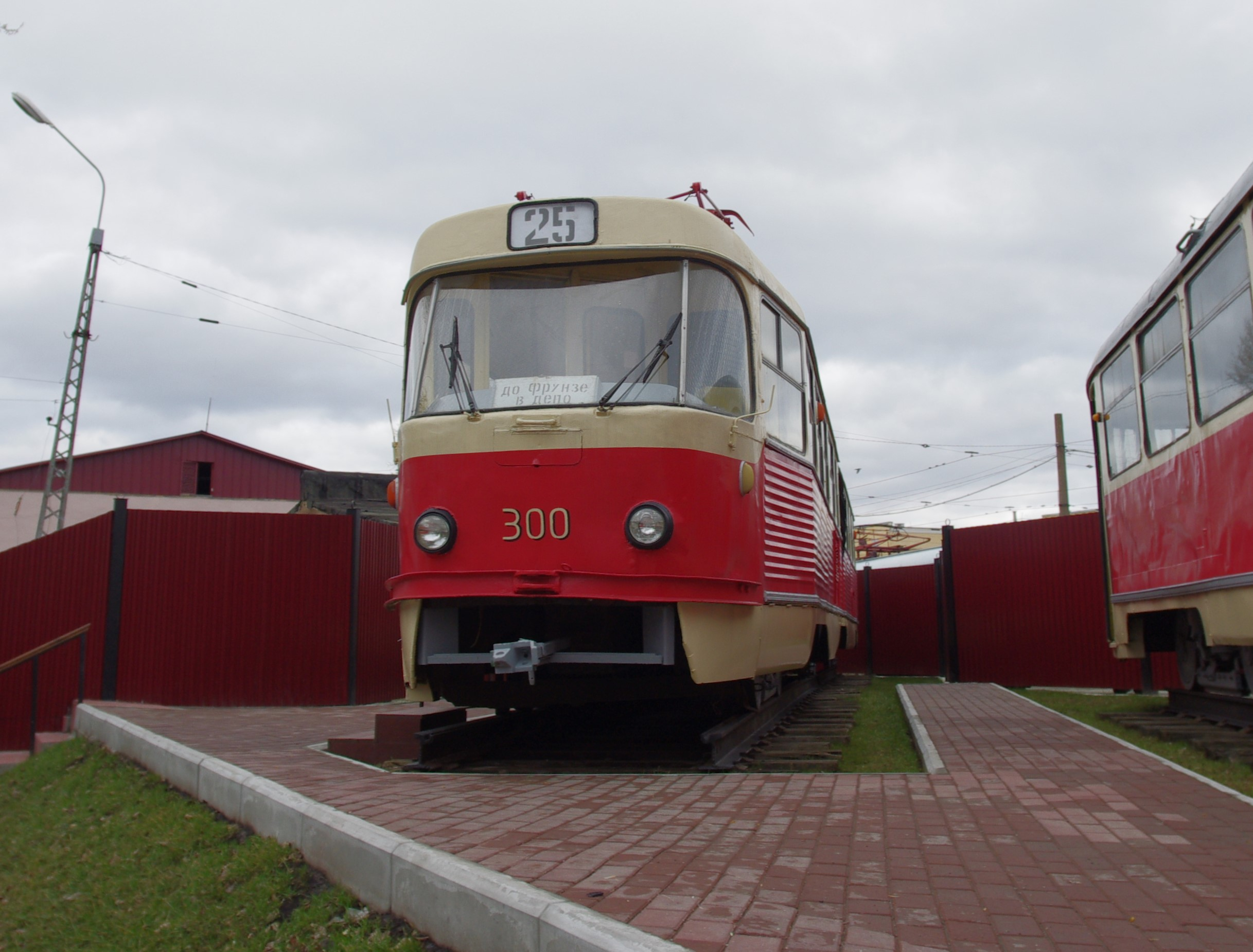 Tatra K2SU 300, museum, Yekaterinburg, 2014